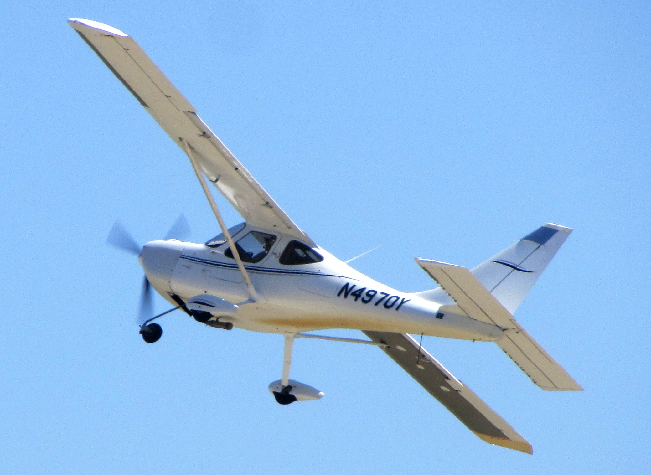 Glassair GlaStar Takeoff